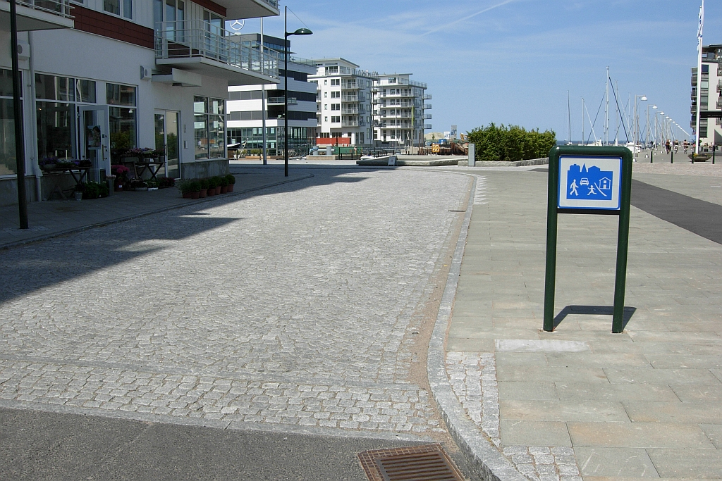 "Living street" in Malmö, Sweden.